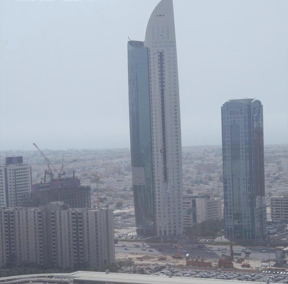 This is a photo showing Park Place located along Sheikh Zayed Road in Dubai, United Arab Emirates as seen from the air on 1 May 2007.